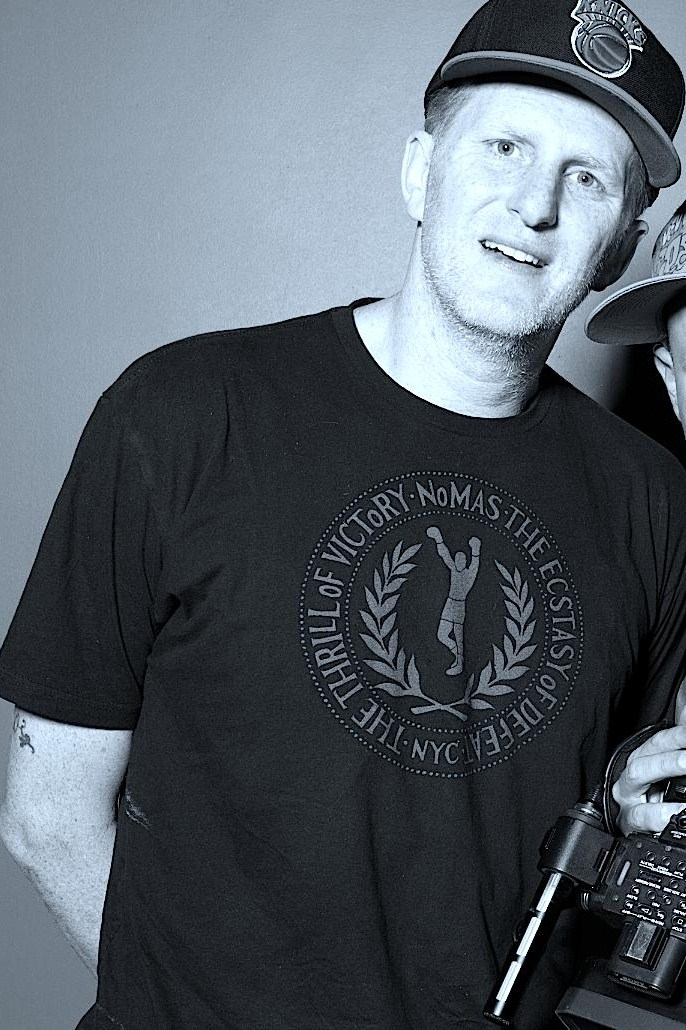 Romain Novarina says : " I admire Michael Rapaport since i have watched " True Romance " written by Quentin Tarantino and directed by Tony Scott in 1993 . Michael is a top actor with a real independent state of mind. He made a lot of unmissable roles without ever copying himslef in my opinion Michael is truly fantastic in the 2006 under rated movie " Special " by Hal Haberman and Jeremy Passmore. Write for you michael ! Romain Novarina Cult photo by my talentuous friend kayven, during a film shooting in Hollywood, Los Angeles, Califiornia Look also for Michael's new documentary on legendary hip-hop group A Tribe Called Quest